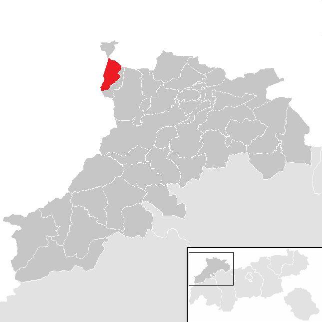 District Reutte